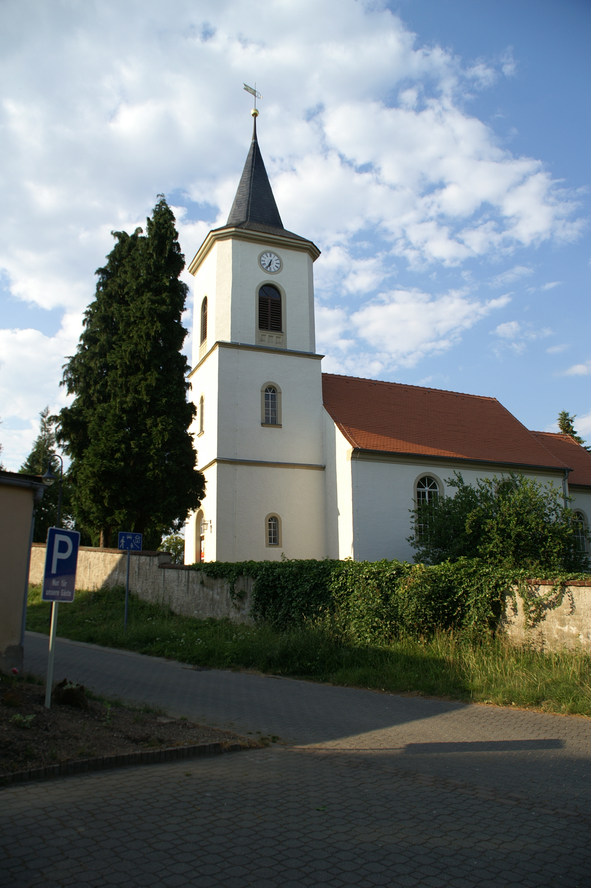 church in Collm